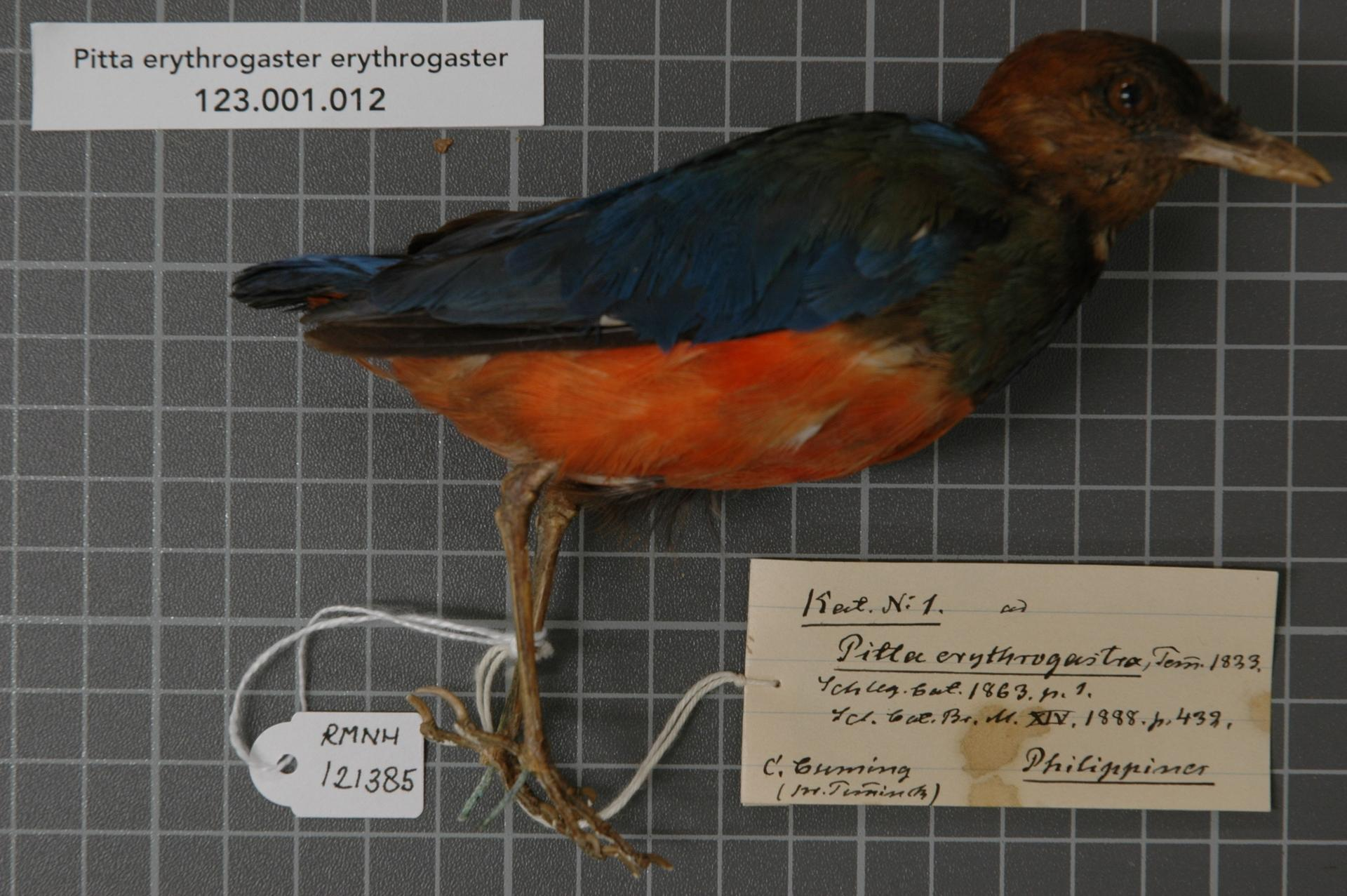 Pitta erythrogaster erythrogaster Temminck, 1823